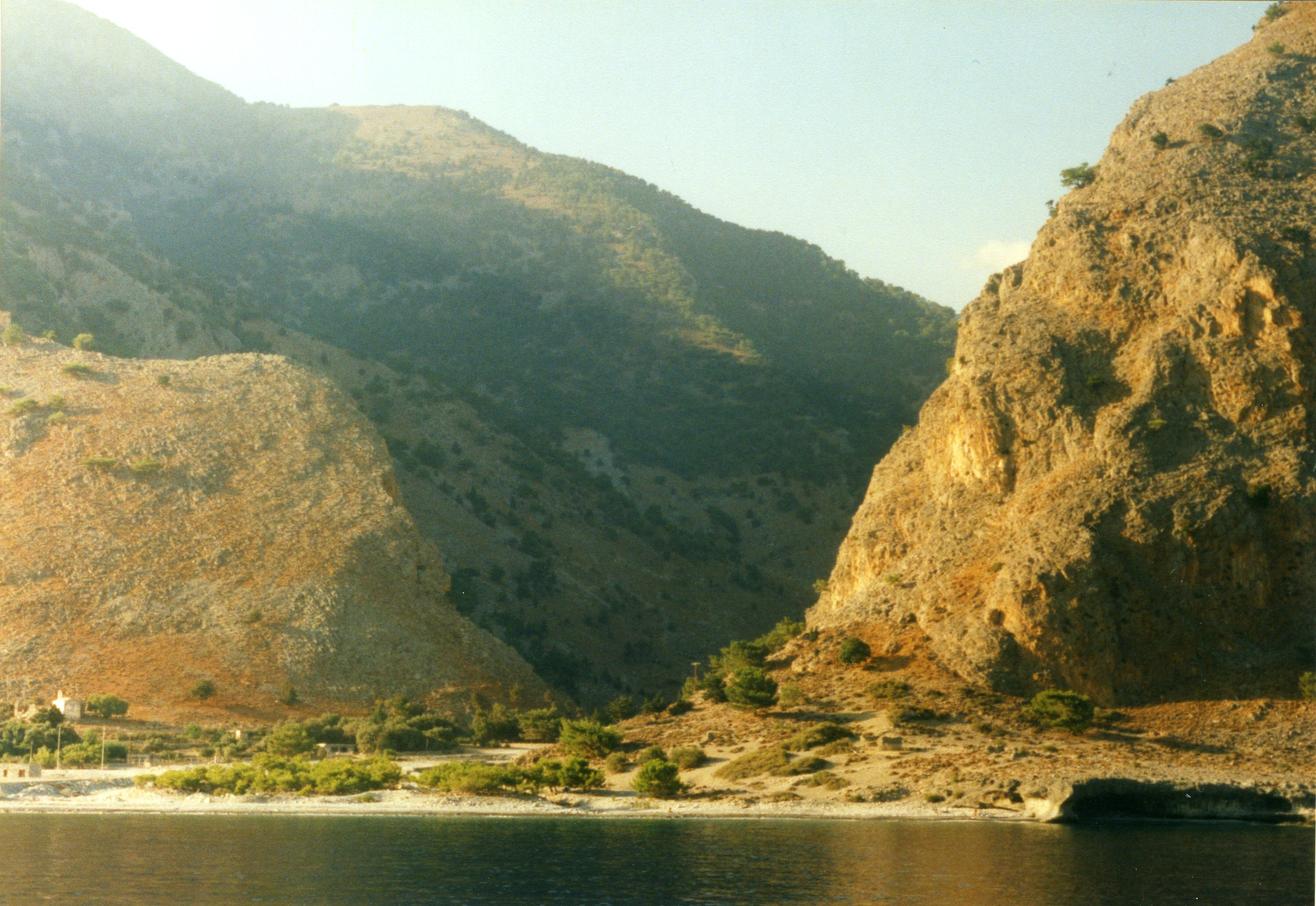 Samaria Gorge, Crete, Greece. In fact, this is not a gorge itself, which ends a couple of km before the sea, but this is a view of the seaside. Author: user:Pibwl, 1997.